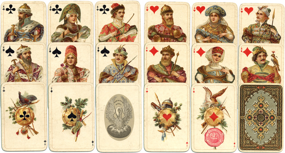 Russian playing card deck called "Russian style" (face cards), designed in 1911 by "Dondorf GmbH" (Germany), original print